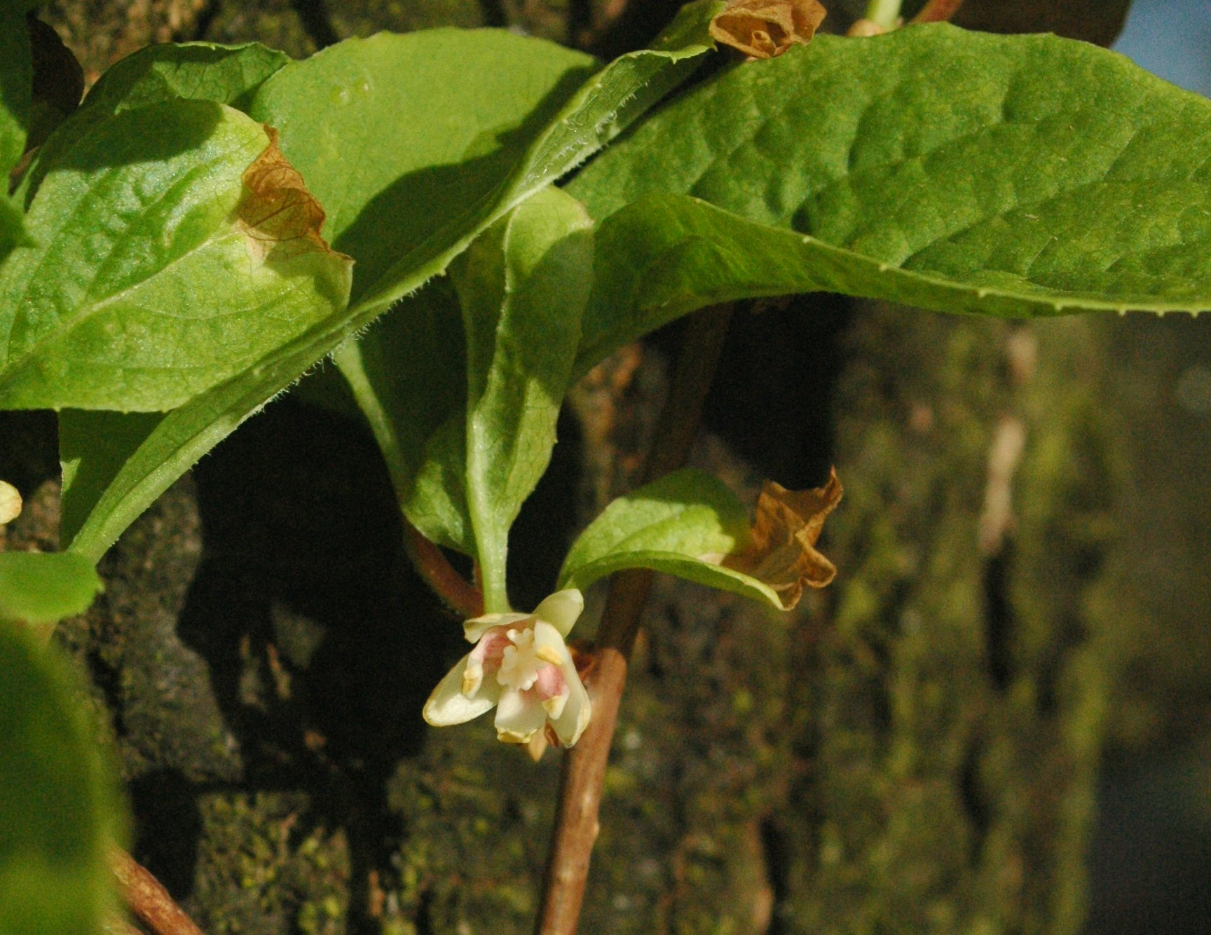 Schisandra chinensis, flower